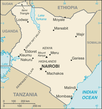 Kenya map from CIA World Factbook, converted from original GIF format